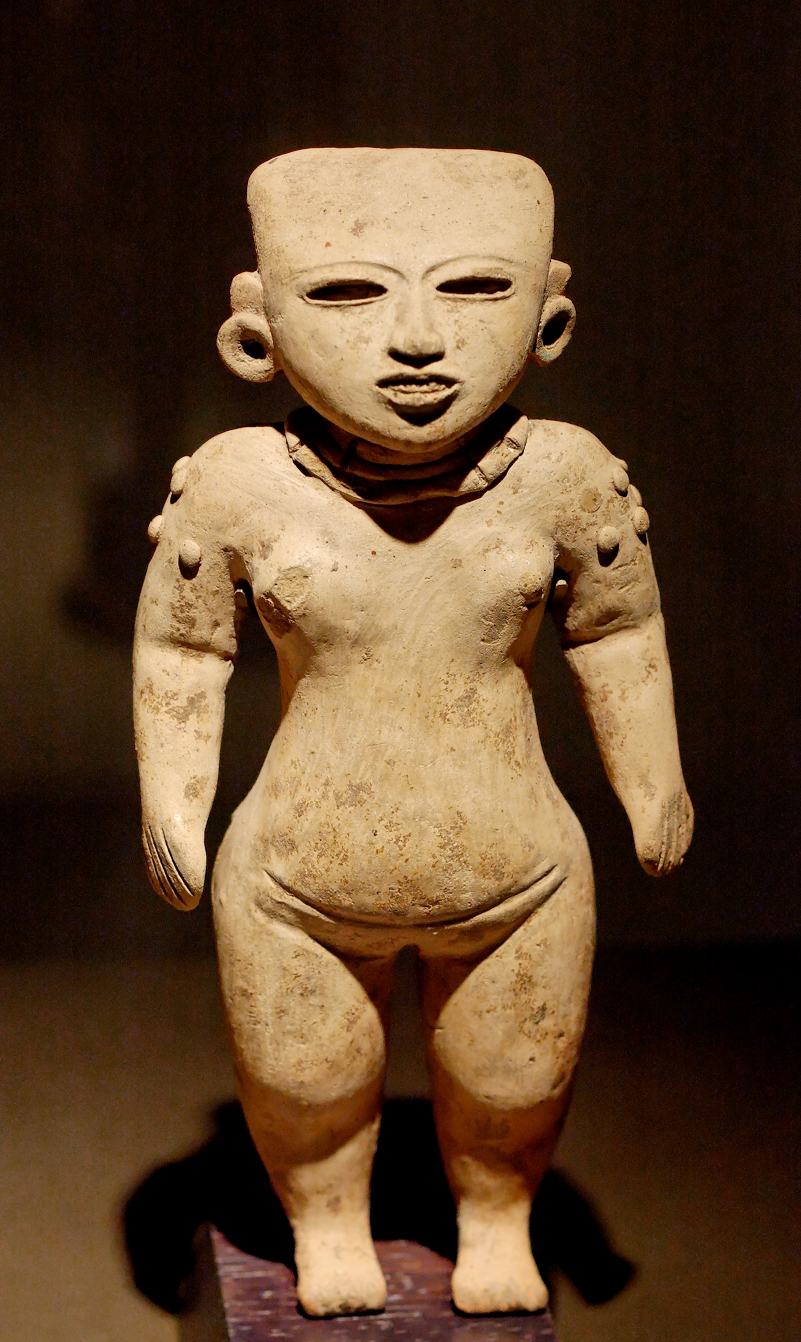 Figurine from the ancient city of Teotihuacán. Earthenware, region of Michoacán (Mexico), 2nd-5th century CE.